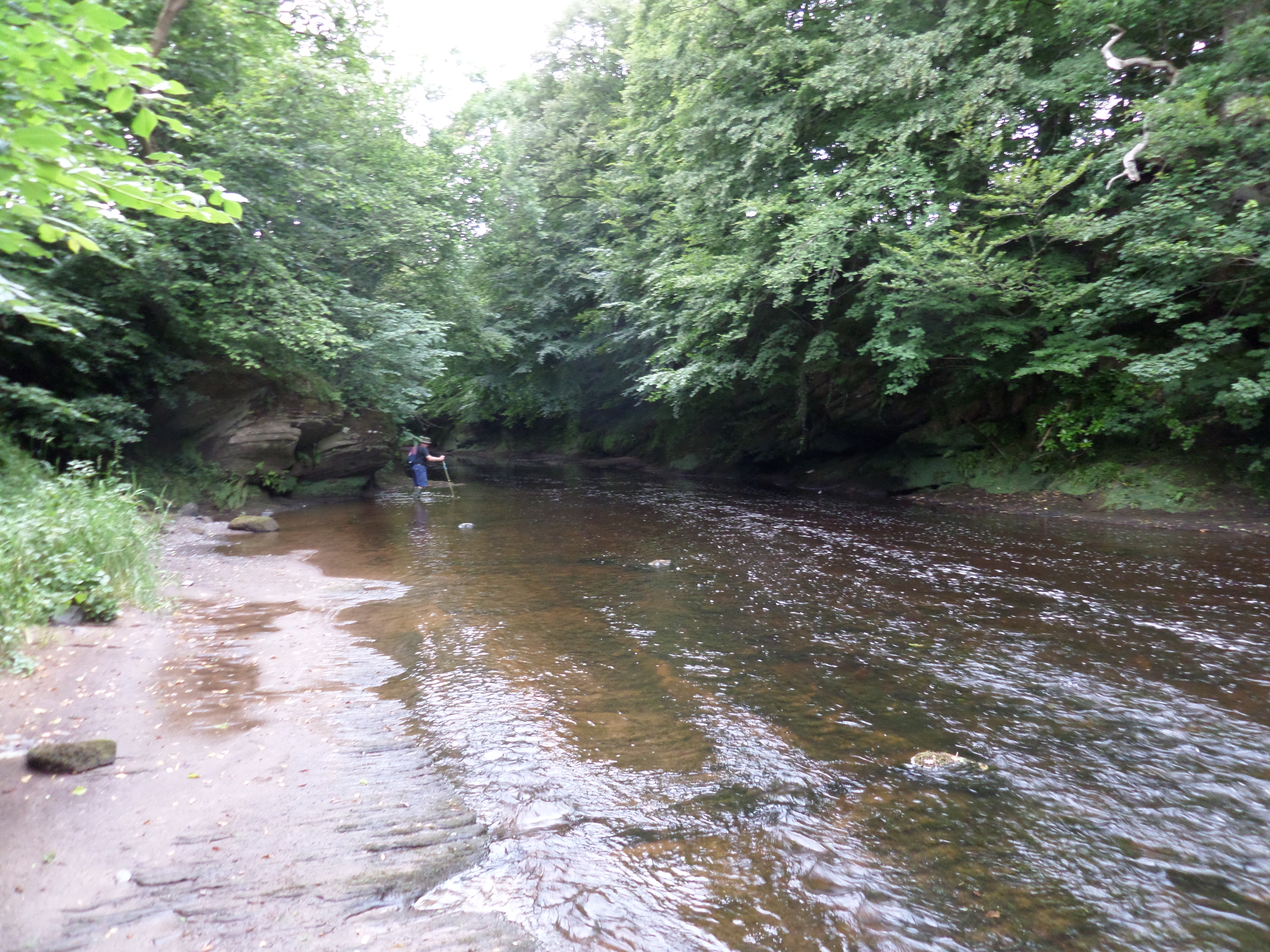 The old Slatehole Ford view downstream, River Lugar, East Ayrshire, Scotland.